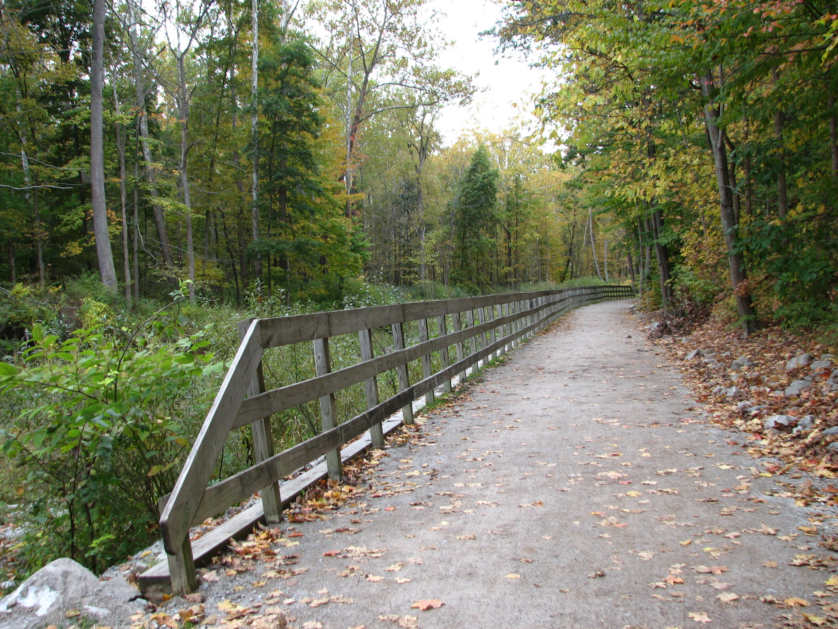 A photo taken of a portion of the Ohio and Erie Canal Tow-Path Trail, located in the Cuyahoga Valley National Park. The Cuyahoga River used to run to the immediate left of the shown path, but has been recently directed via dam to run further to the left behind the trees.